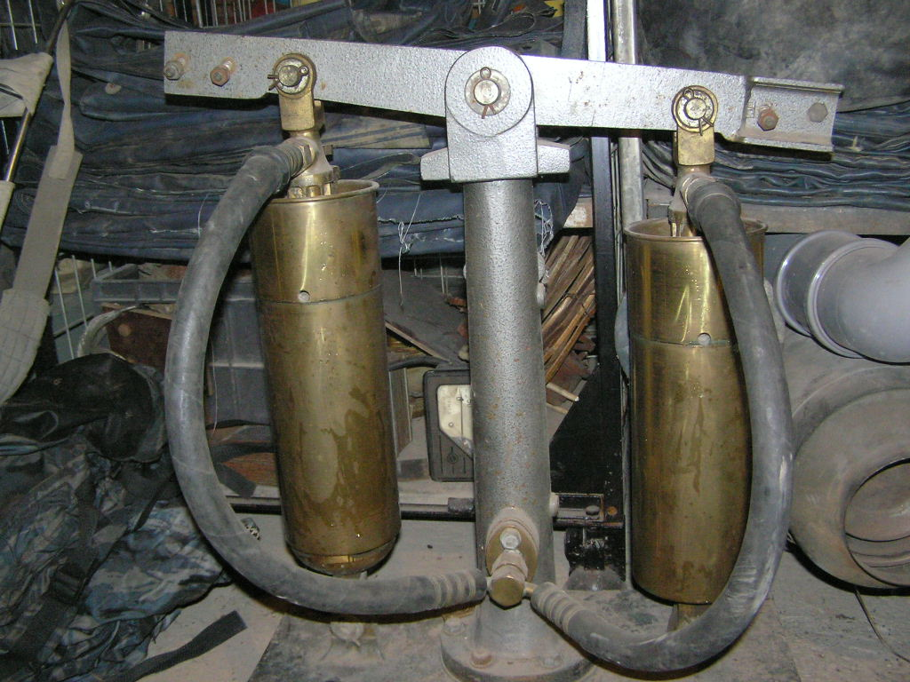 A two-cylinders hand pump manufactured by "Drager" (Germany). "Dragerwerk AG LUBECK Germany"